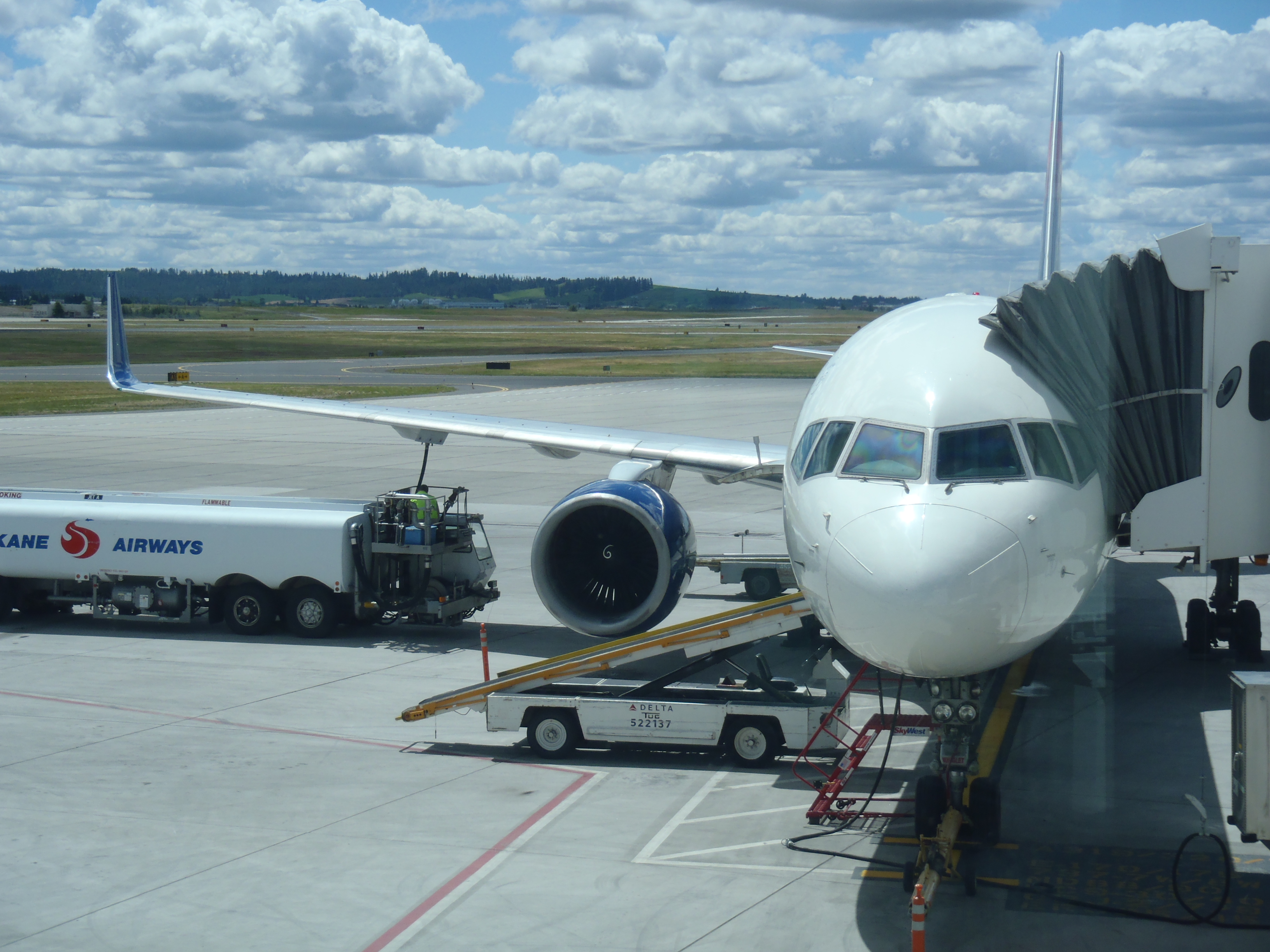 Delta B757 at Spokane Int'l Airport. Seen from Gate B8.